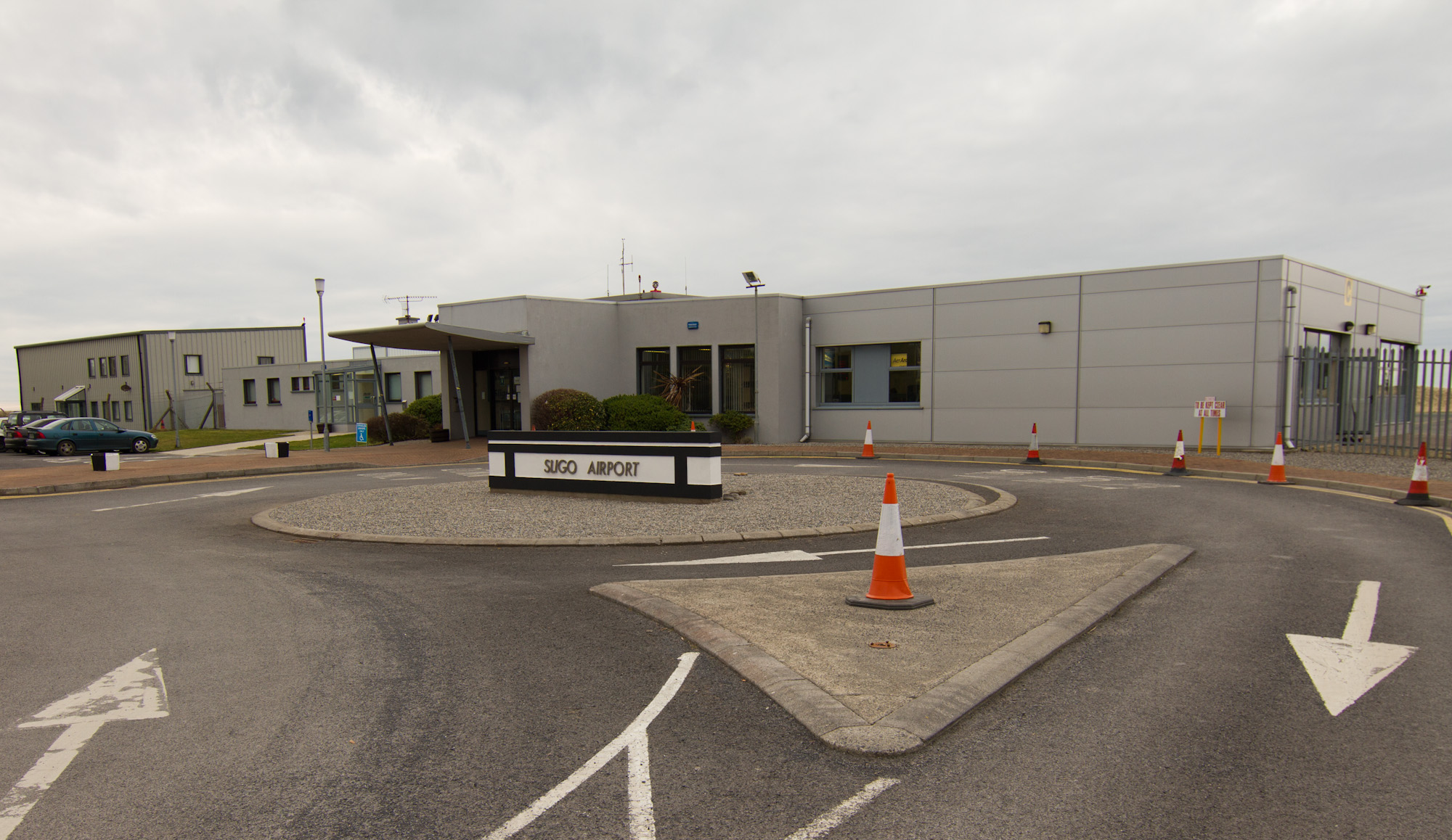 Taken at the front of Sligo Airport.